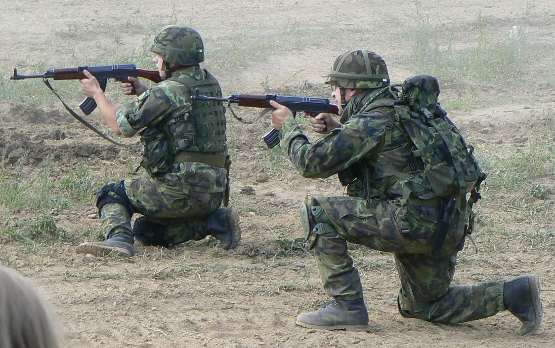 Members of Active Reserve of the Armed Forces of the Czech Republic during the 6th Tank Day in Lešany Military Technical Museum, equipped with Sa vz. 58 assault rifles and vz. 95 uniforms